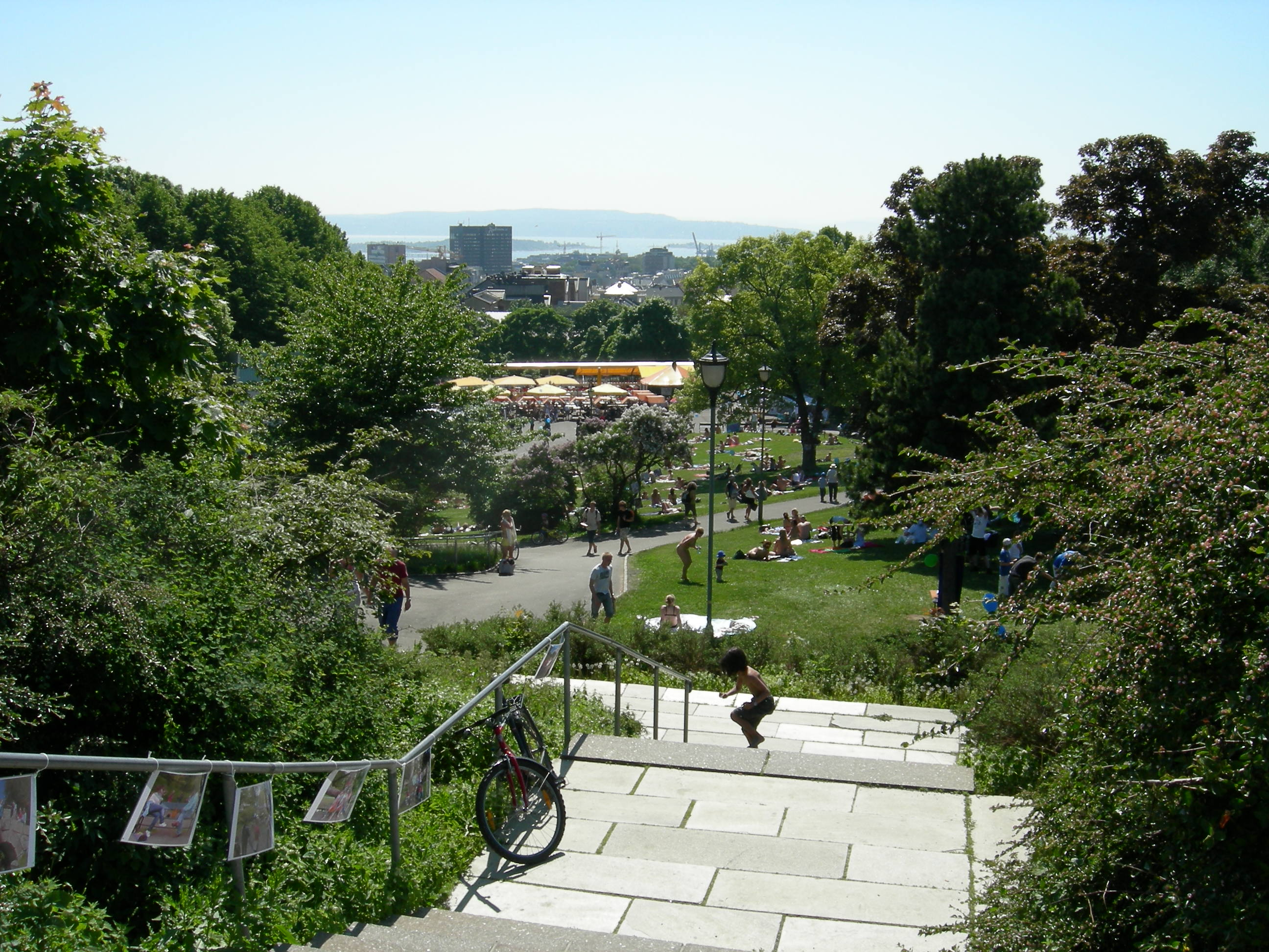 Stairs from the top of St. Hanshaugen park, Oslo, Norway, with view to the outdoor café, city and Oslo Fjord. Photo taken by myself.